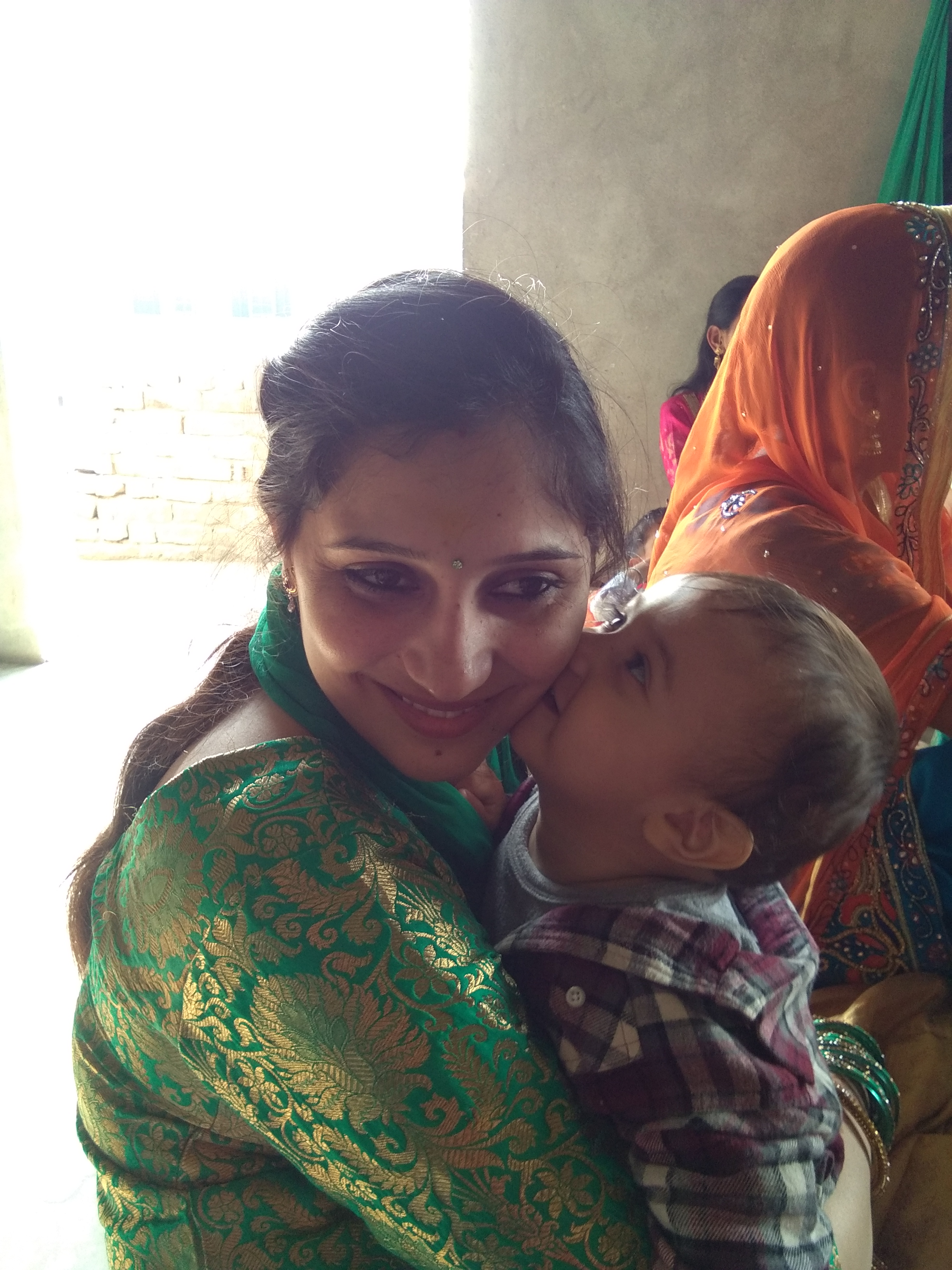 Love of son for her mother is the most beautiful thing in this world. The moments are very precious. This photo has been taken in the country: India